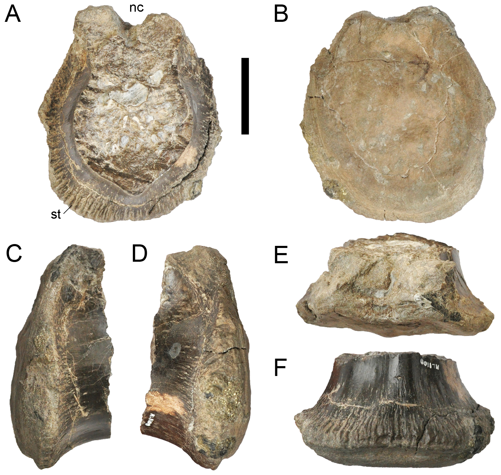 Caudal vertebra of Torvosaurus gurneyi (ML 1100). A–D, Posterior part of an anterior caudal centrum of the holotype specimen of Torvosaurus gurneyi (ML 1100) in A, anterior; B, posterior; C, right lateral; D, left lateral; E, dorsal; and F, ventral views. Abbreviations: nc, neural canal; st, striation. Scale bar = 5 cm.